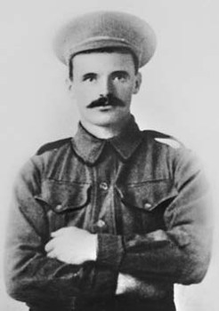 PORTRAIT OF 3970 PRIVATE MARTIN O'MEARA, VC 16TH BATTALION. (OBTAINED THROUGH THE R.S.S. & I.L.A. PERTH W. A.).